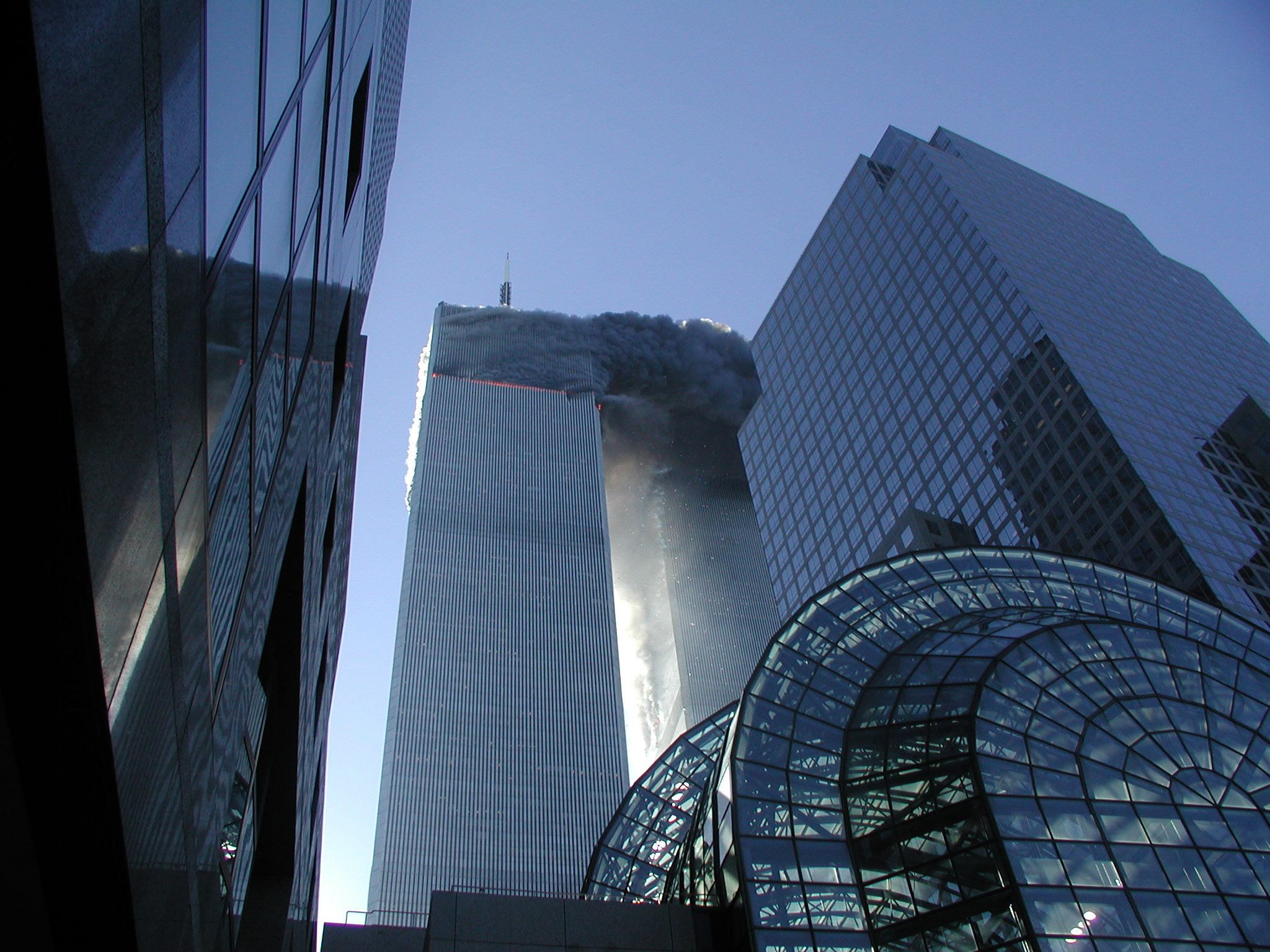 P9110006 (35222372101) September 11, 2001 World Trade Center terror attack. View Direction: northwest Shot From: Behind the Winter Garden Date Recorded: 2001-09-11 09:05:39